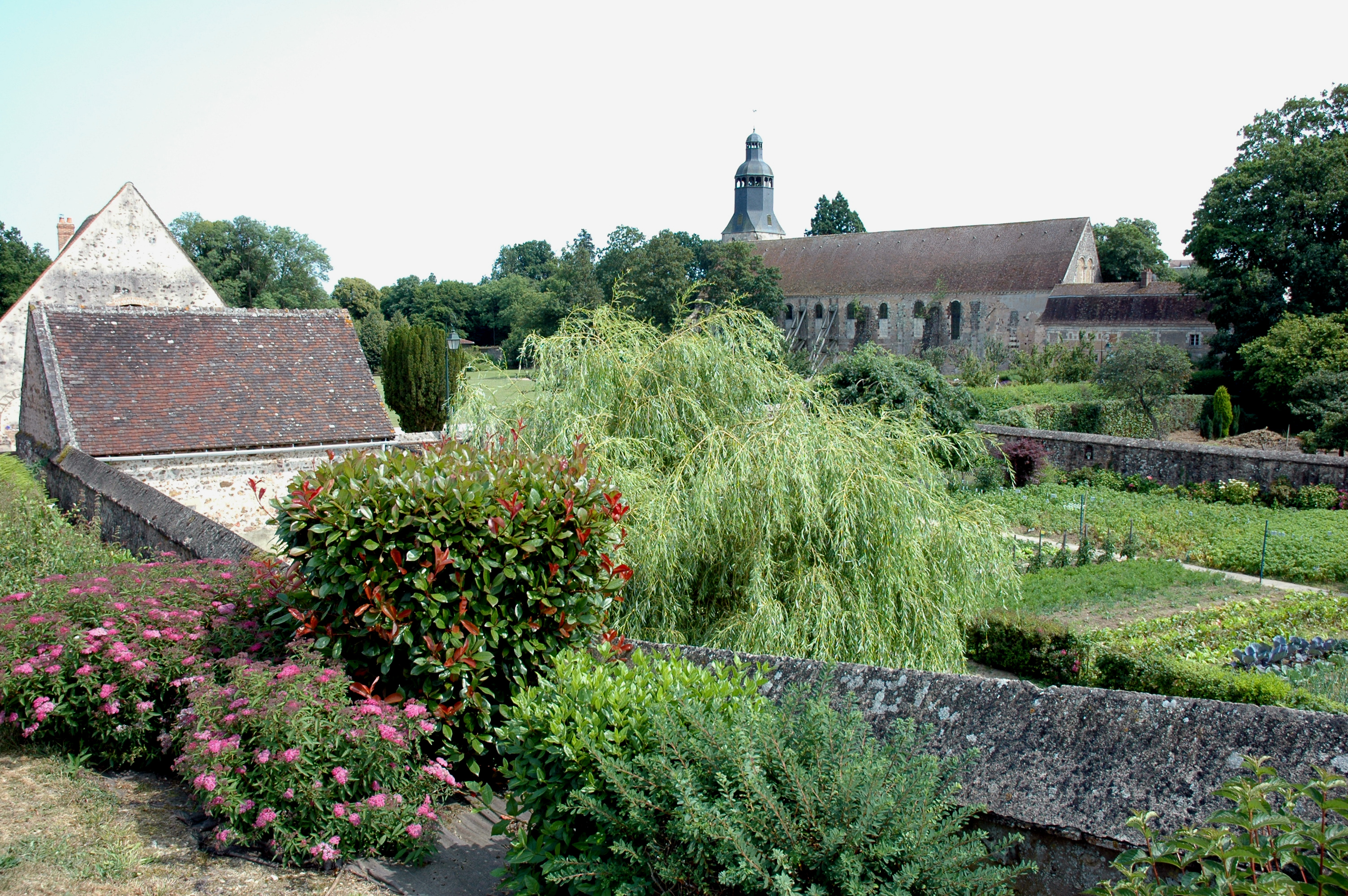 Tiron Abbey